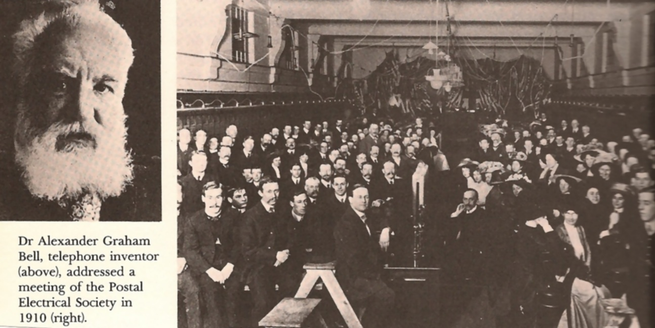 Flashlight photograph of welcome to Dr. Graham Bell by the Postal Electrical Society of Victoria (forerunner of the Telecommunications Society of Australia) , at the Central Exchange, Melbourne, Australia, 17 August 1910